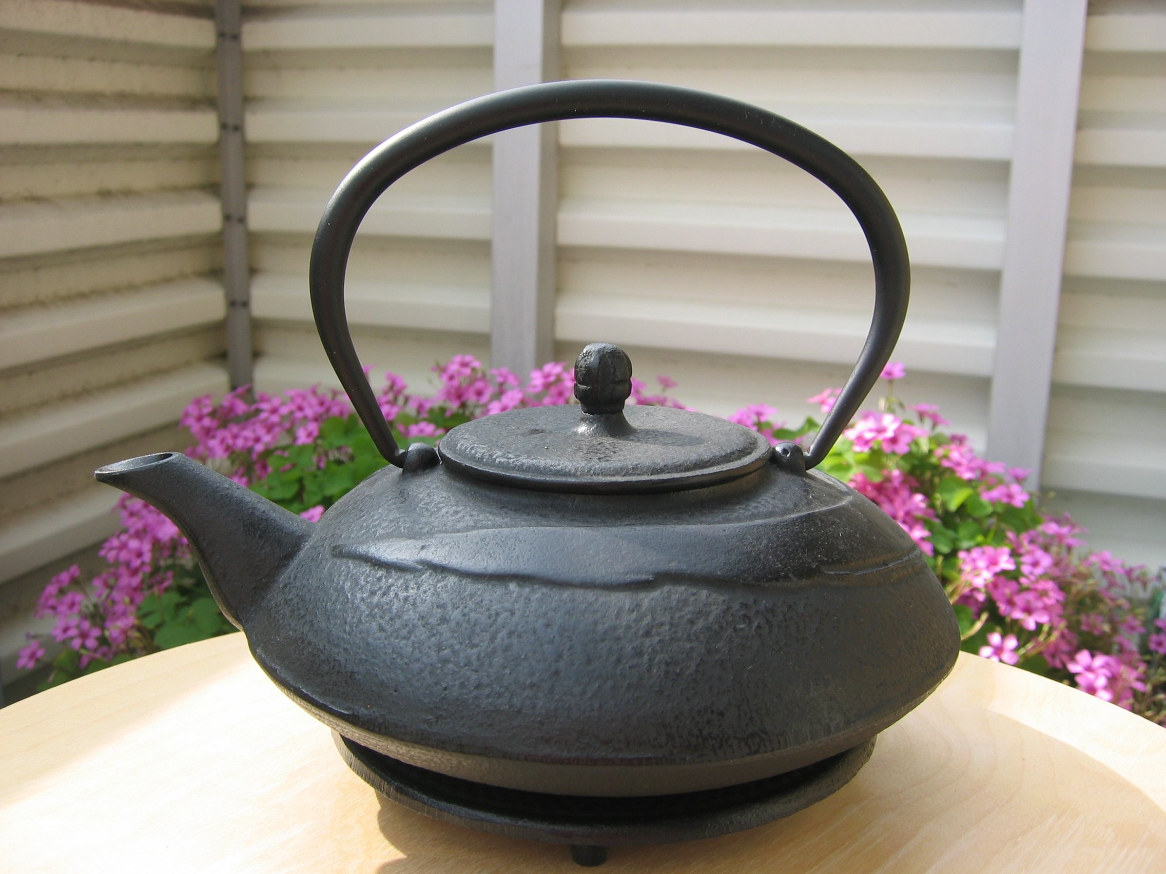 Japanese cast-iron teapot, 鉄瓶 (tetsubin), bough in "Kina i Søborg", Søborg, Denmark.